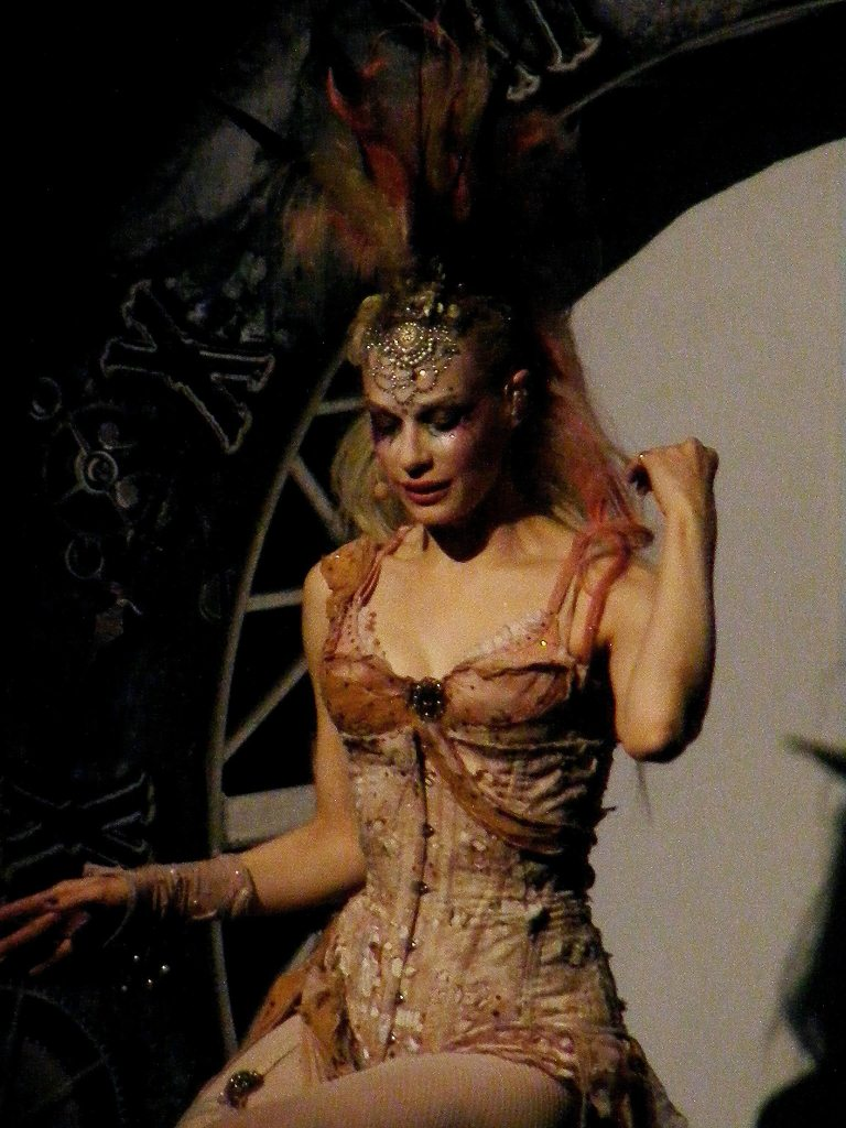 Emilie Autumn performing at the HMV Ritz, Manchester, on Saturday the 14th of April 2012